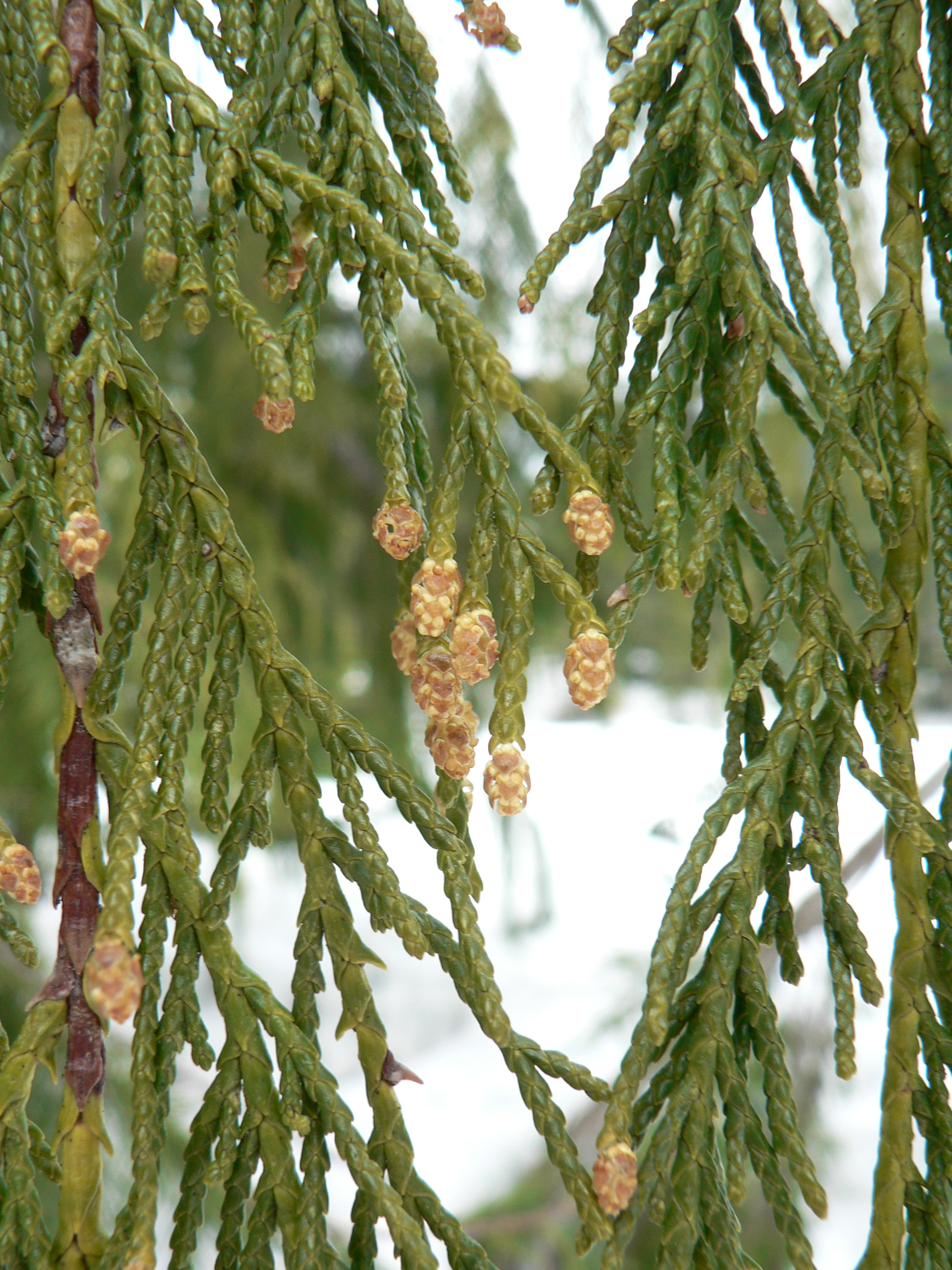 Nootka Cypress, Yellow Cypress, Alaska Cypress; male cones